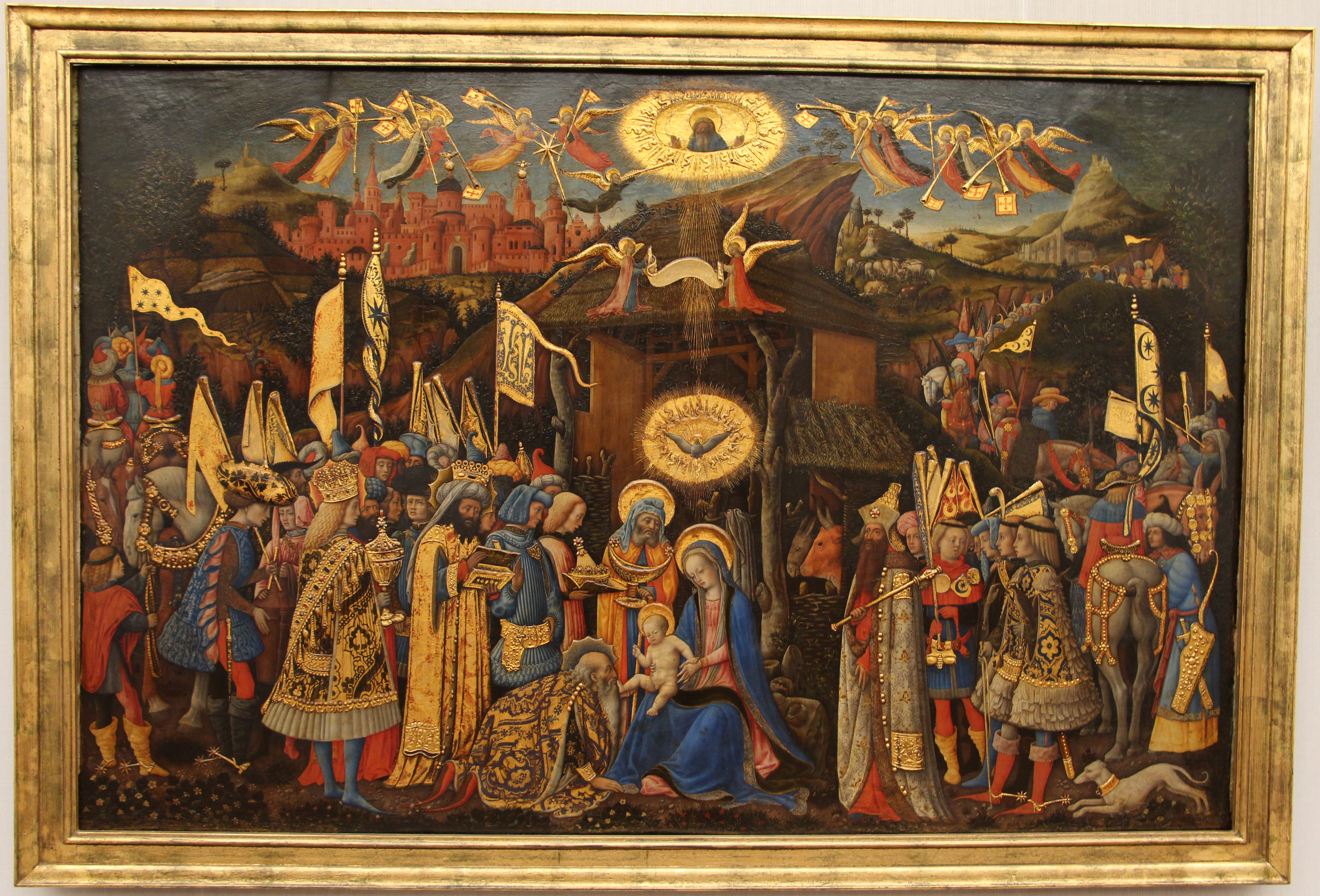 Adoration of the Magi by Antonio Vivarini